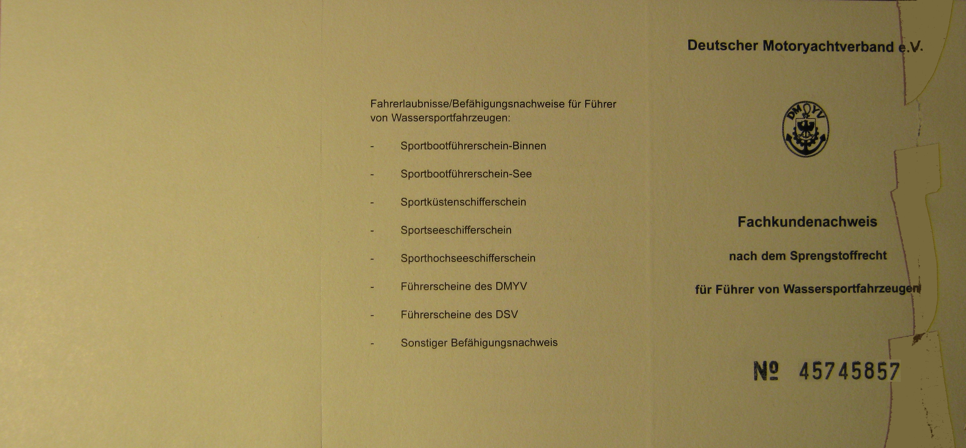 FKN